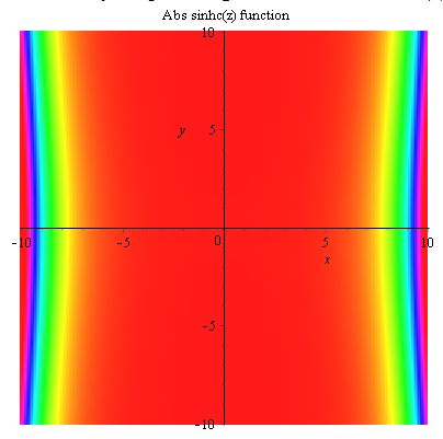 Sinhc abs plot